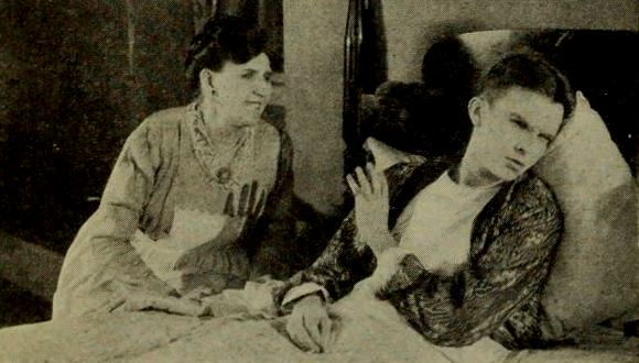 Still from the American comedy film The Cradle Buster (1922) with Glenn Hunter and Beatrice Burton, on page 64 of the May 1922 Photoplay Magazine.